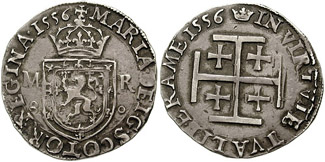 Scotland. Mary, Queen of Scots. 1542-1567. AR Testoon (6.02 gm). First period, type IIIa, dated 1556. Crowned shield flanked by M-R with annulets below; mm: cross potent Cross potent, crosses in angles (i.e. Jerusalem cross); mm: crown. Burns pg. 277, 11; SCBC 5404. Toned, nice VF.